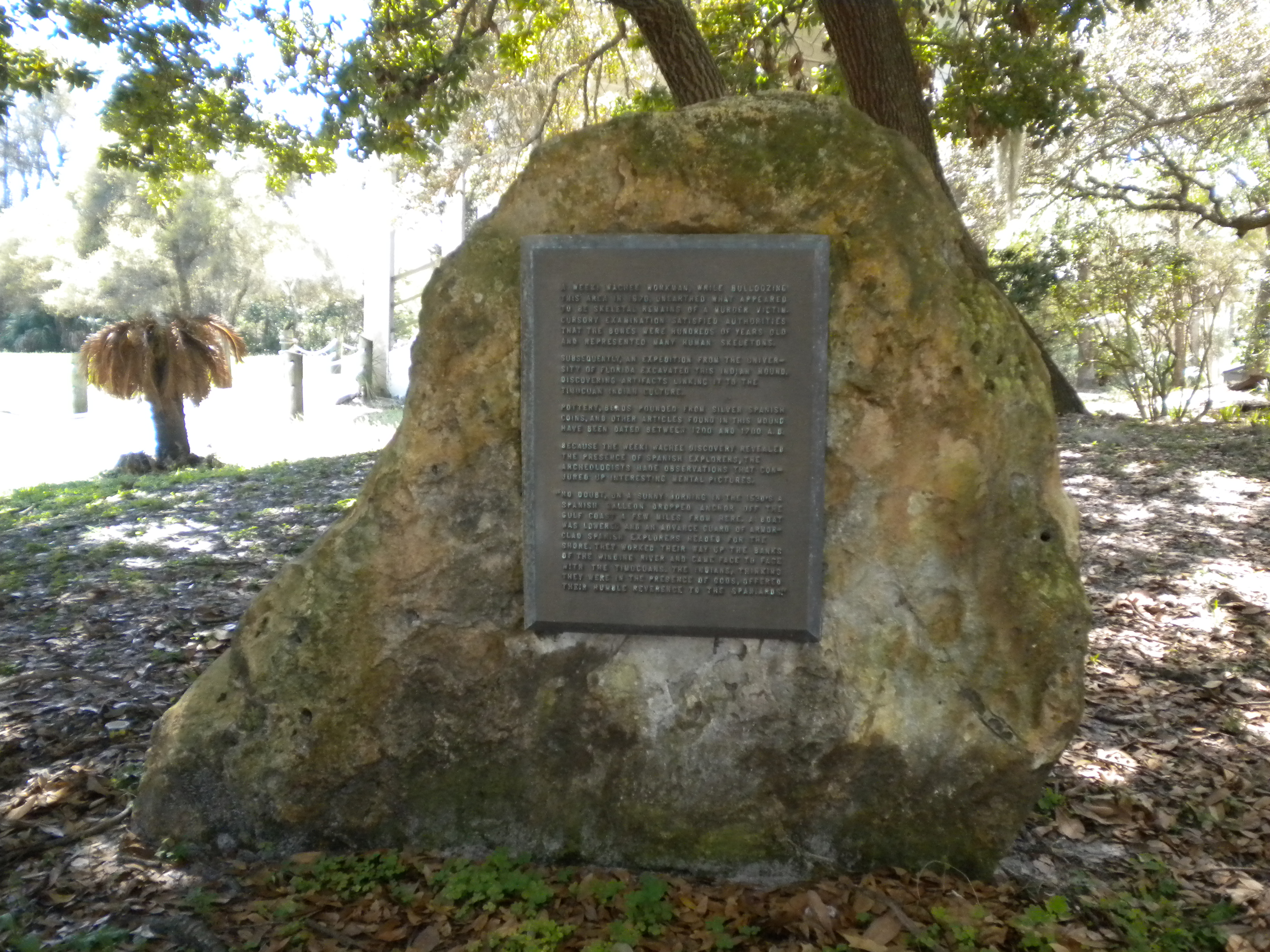 Weeki Wachee memorial at Weeki Wachee Springs State Park, 6131 Commercial Way, Weeki Wachee, Florida. Plaque on memorial says: "A Weeki Wachee workman, while bulldozing this area in 1970, unearthed what appeared to be skeletal remains of a murder victim. Cursory examination satisfied authorities that the bones were hundreds of years old and represented many skeletons. Subsequently, an expedition from the University of Florida excavated this Indian mound, discovering artifacts linking it to the Timucuan Indian culture. Pottery, beads pounded from silver Spanish coins, and other articles found in this mound have been dated between 1200 and 1700 A.D. Because the Weeki Wachee discovery revealed the presence of Spanish explorers, the archeologists made observations that conjured up interesting mental pictures. 'No doubt, on a sunny morning in the 1530’s a Spanish galleon dropped anchor off the Gulf Coast a few miles from here. A boat was lowered and an advance guard of armored clad Spanish explorers headed for the shore. They worked their way up the banks of the winding river and came face to face with the Timucuans. The Indians, thinking they were in the presence of gods, offered their humble reverence to the Spaniards.'"